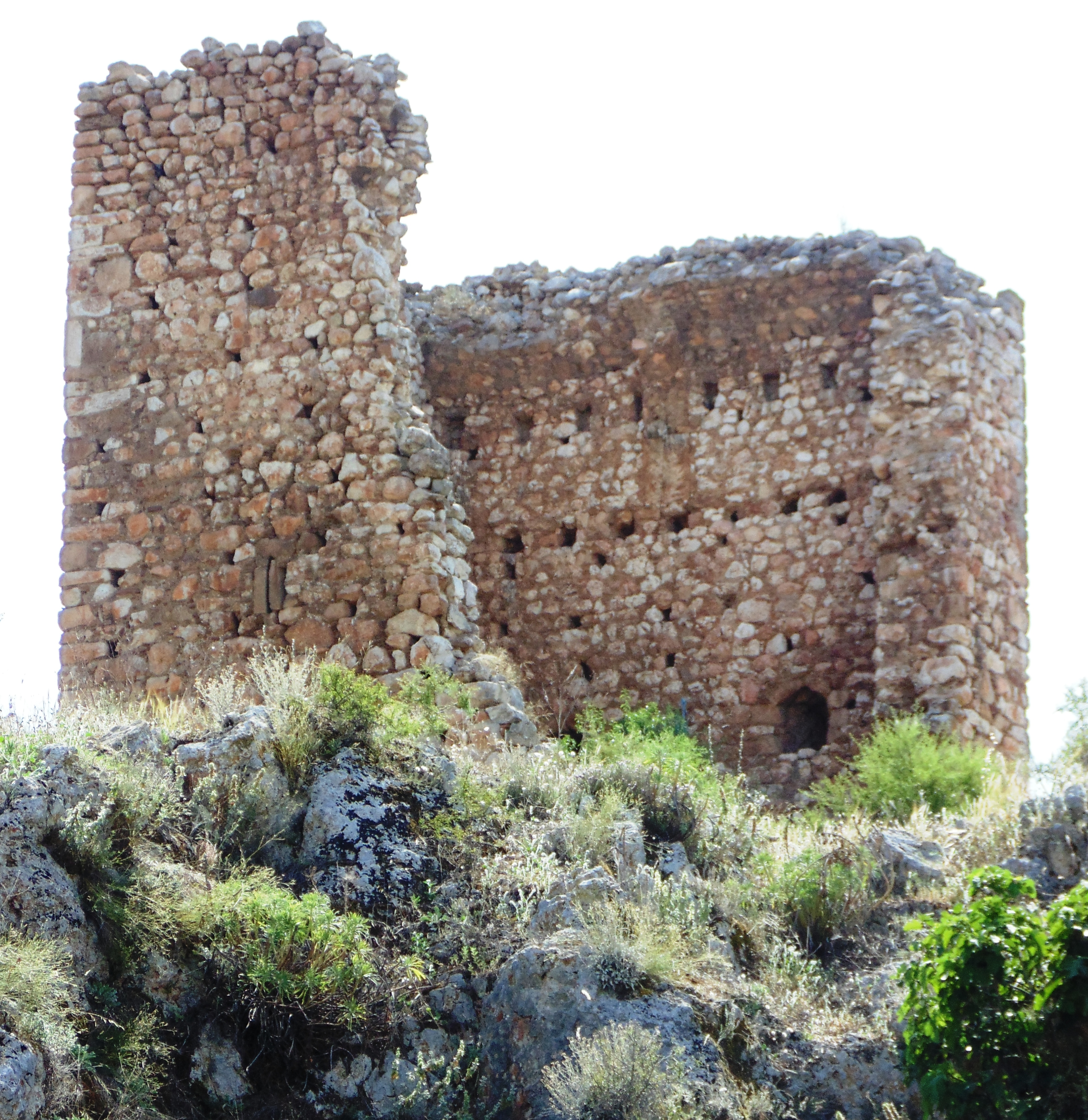 Medieval tower